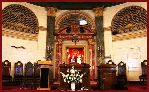 Sanctuary